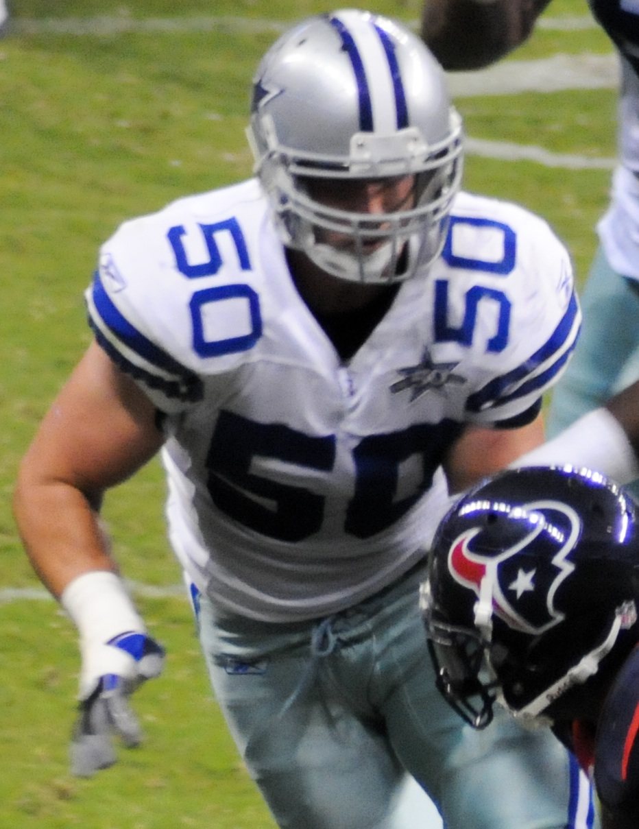 Sean Lee of the Dallas Cowboys.